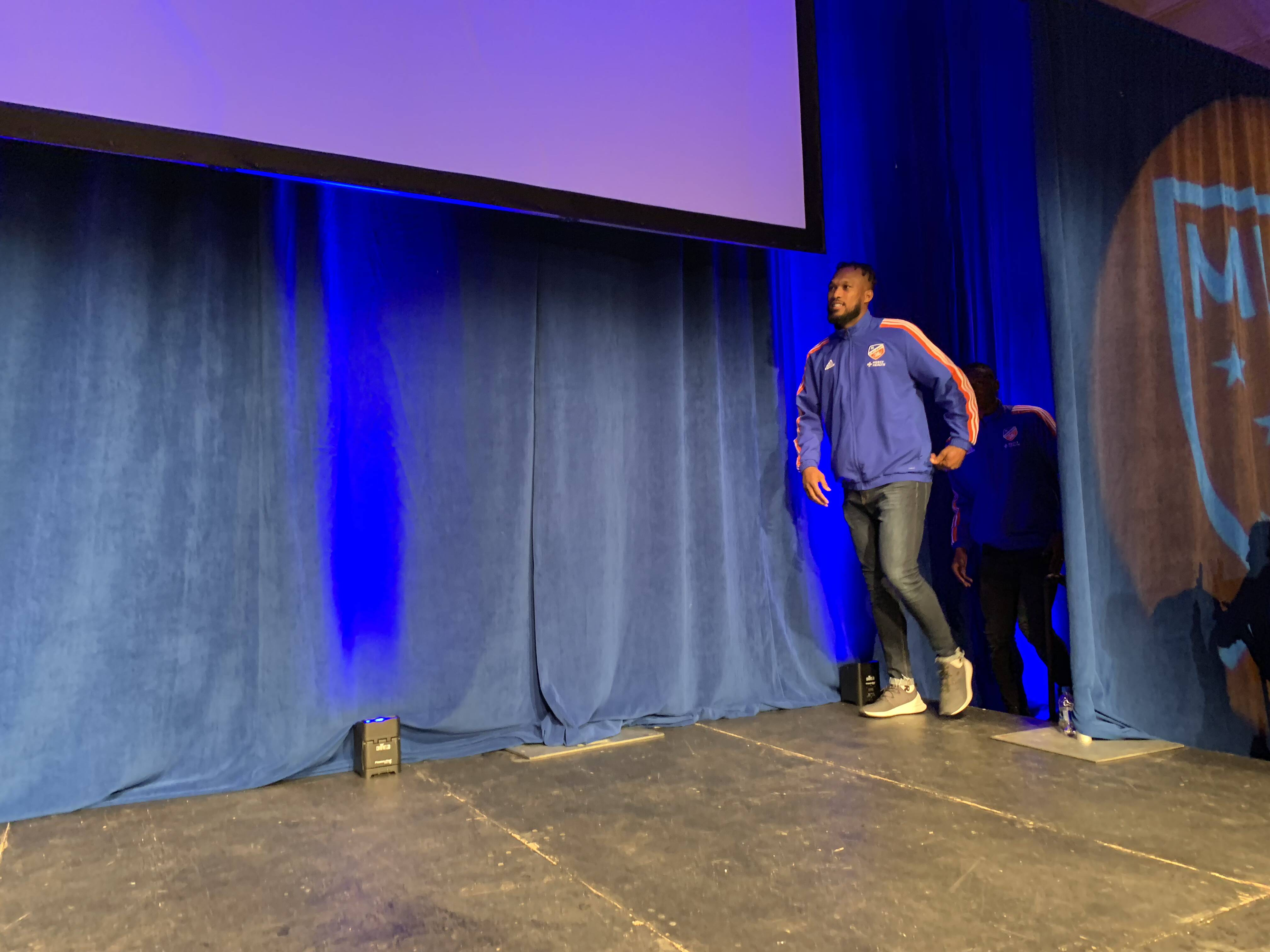 Taken at the FC Cincinnati 2019 inaugural kit reveal event on February 11, 2019 in the main ballroom of Cincinnati Music Hall.